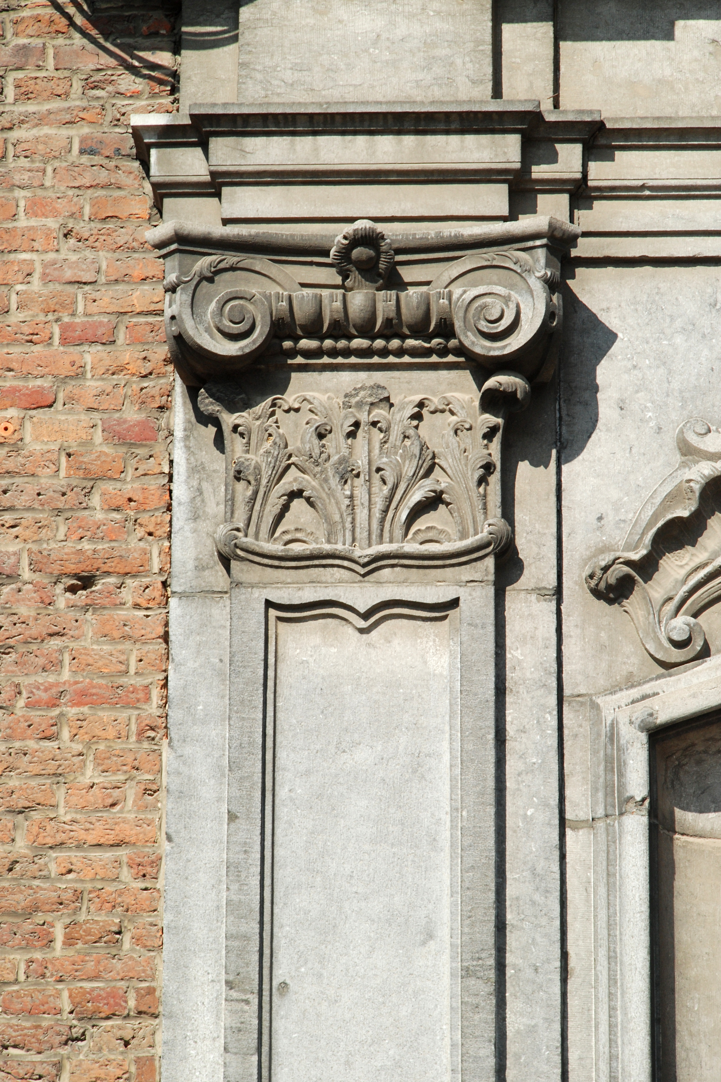 Belgium - Leuven - Holland College